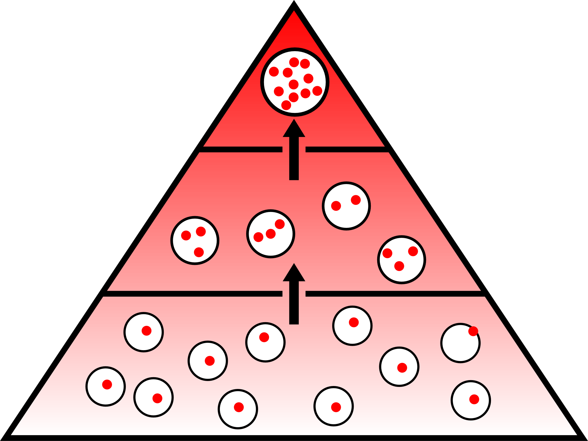 Bioaccumulation